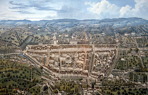 Coloured aquatint by Lucas/Lukas Weber (1811-1860), ca. 1850/1853, after David Alois Schmid, entitled "Winterthur aus der Vogelschau" (Bird's eye view of Winterthur).